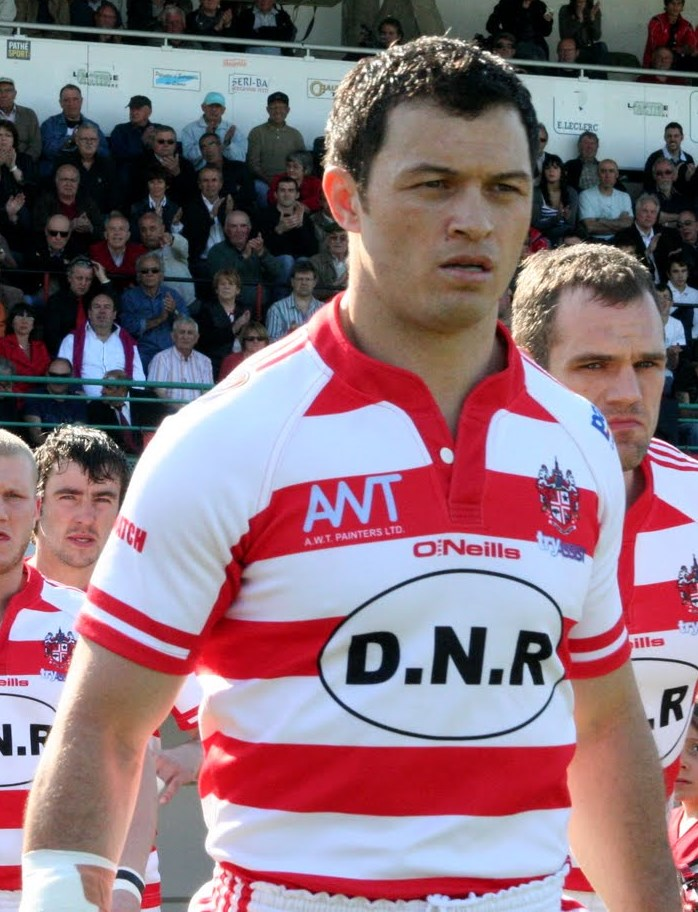 Robbie Paul, New-Zealander rugby league player.